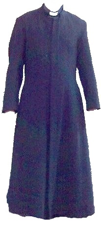 cassock - clothes of priests